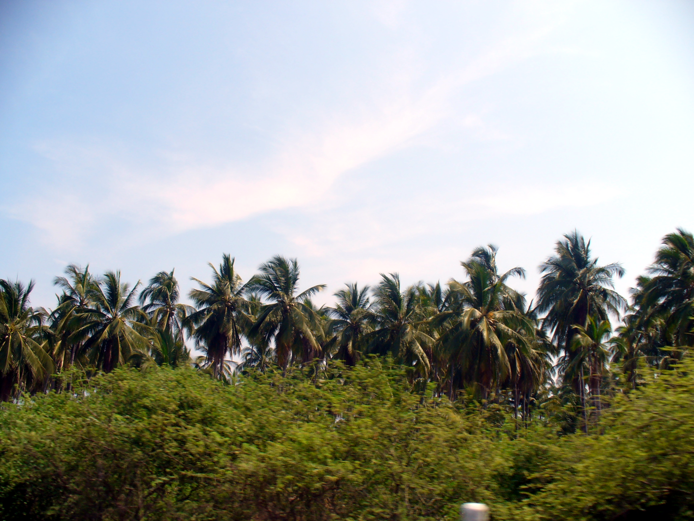 Palm trees of Colima